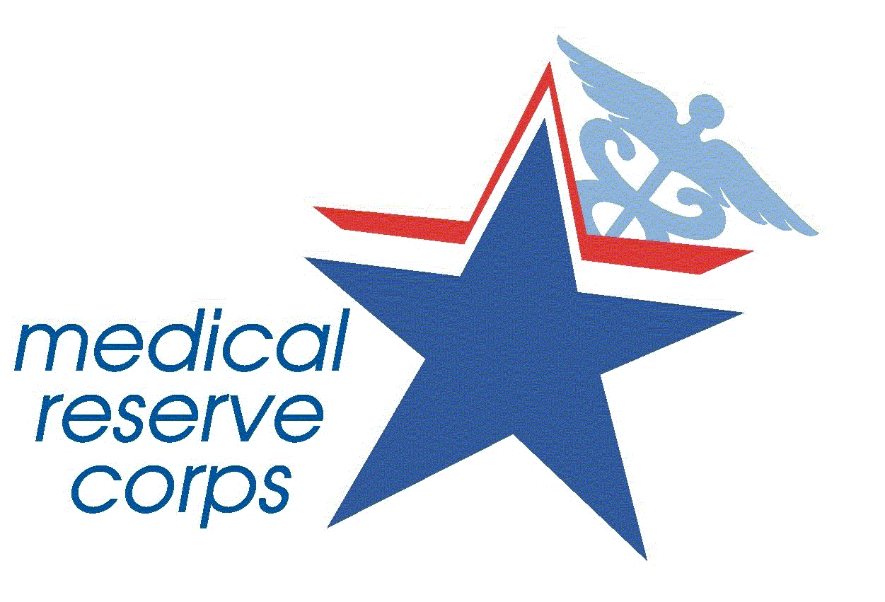 Medical Reserve Corps Logo